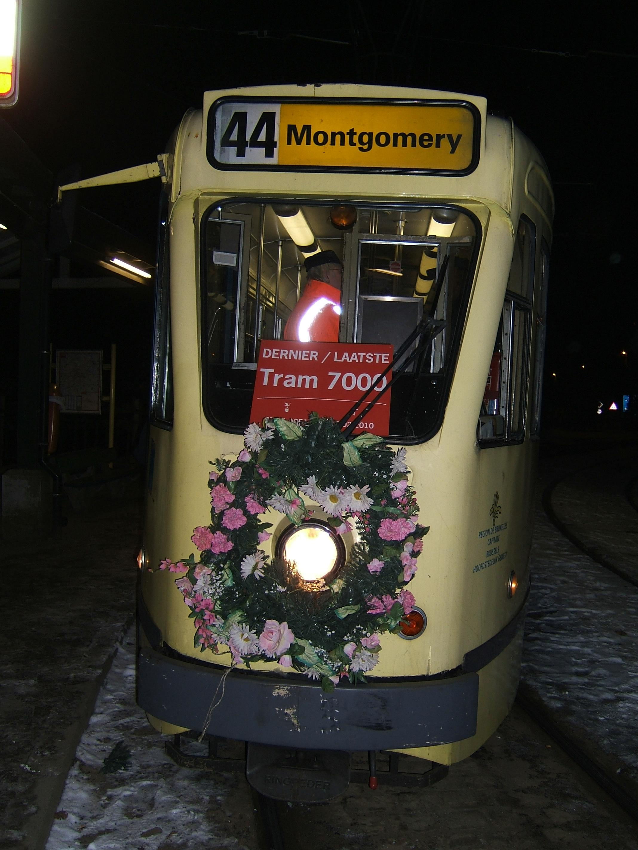 The Brussels 7000 class of four-axle PCC tram cars did their last revenue-earning services on February 12, 2010, on their familiar routes 39 and 44. They were the last of a class of 171, built from 1951 to 1971, partly using second-hand trucks and electric equipment from the United States (Kansas City and Johnstown, PA). They will now make place for larger articulated cars of classes 2000, 3000, 4000, 7700 and 7900 (the latter two still featuring PCC technology). 7008 (built 1951) was the last to enter the Haren depot, where the vehicles are being stored pending disposal. A few of the class remain in service for training and service duties. The PCC tram technology has been one of the major contributions of the United States to the world.